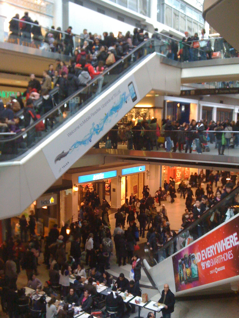 Boxing Day madness @ Eaton Centre Toronto